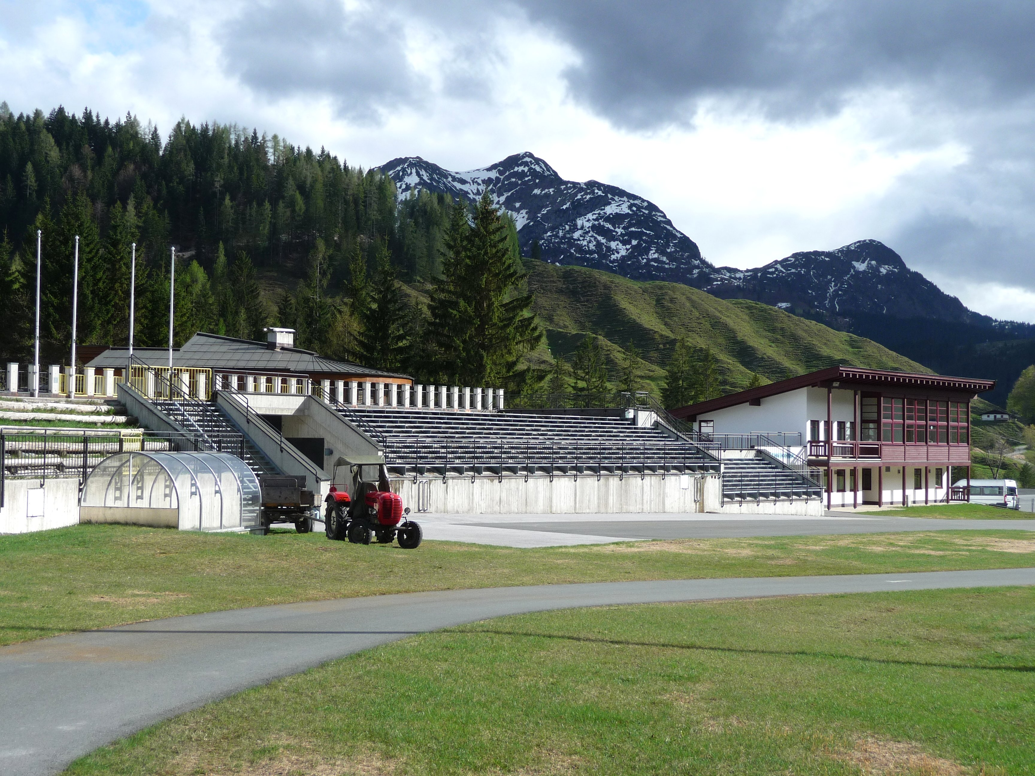 Biathlon stadium Hochfilzen, Austria, in spring